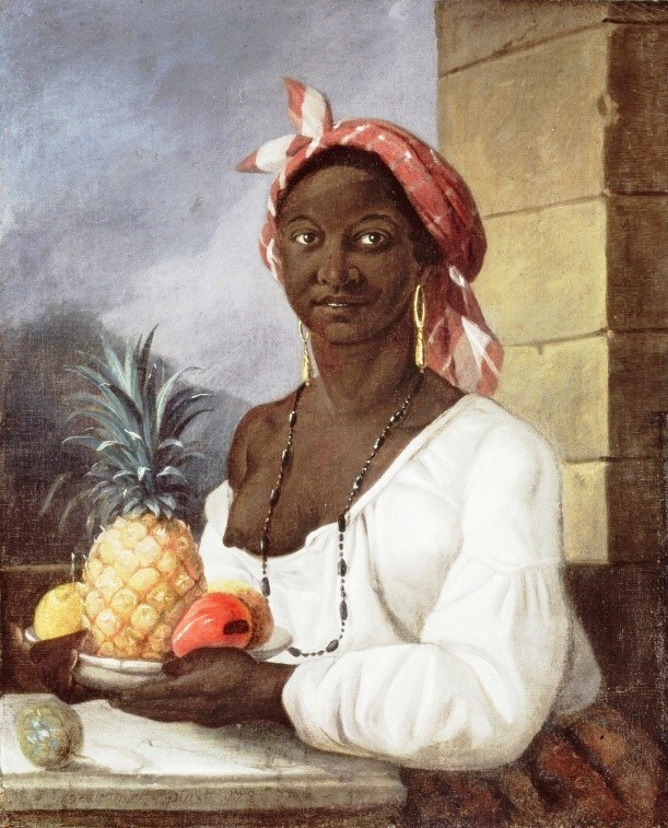 Portrait of a Haitian woman